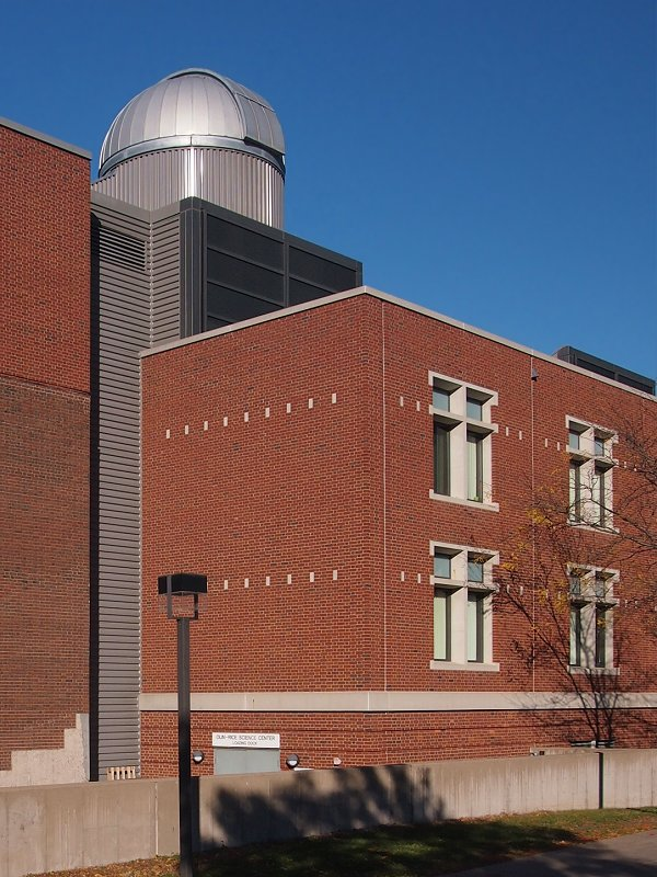 Macalester College Observatory atop the Olin-Rice Building, Macalester College, St Paul, Minnesota, USA. Viewed from the southwest.